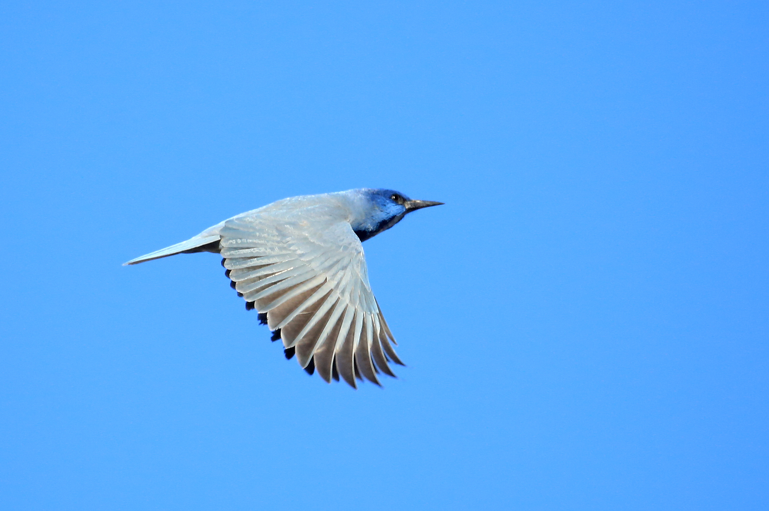 Pinyon Jay Gymnorhinus cyanocephalus, Carson City, Nevada ebird checklist ID=S21054294